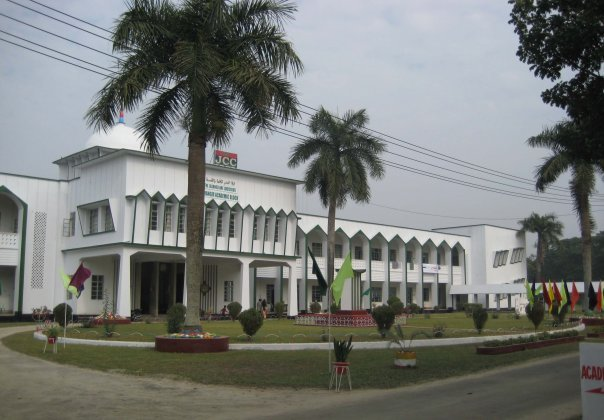 this is a photo of Jcc Academic Block